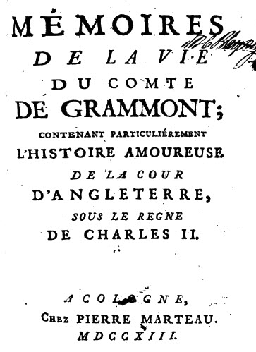 Frontispiece of the Mémores du comte de Grammaont by Antoine Hamilton